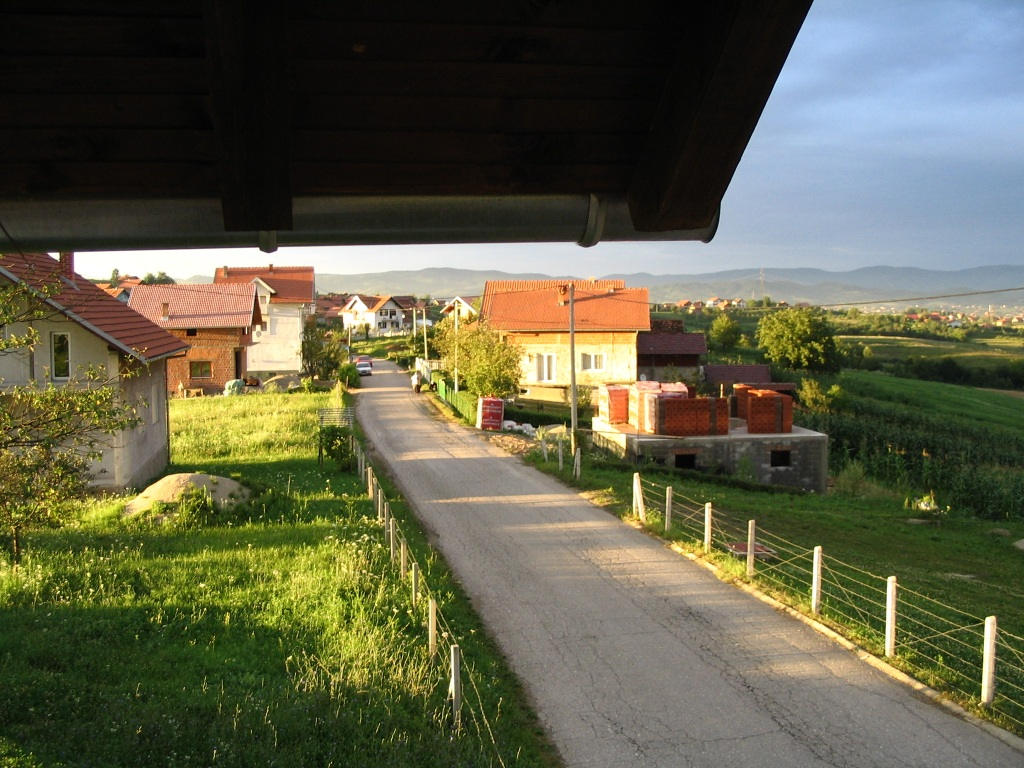 A typical landscape view of the village of Rizvanovici. The main road that leads throughout the entire village is also an indicator where most homes and estates are distributed. Most houses have been recently rebuilt (red masonry).